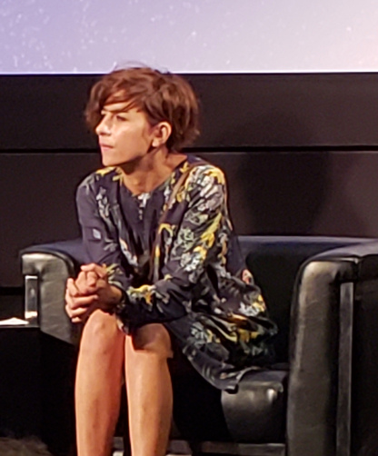 Romanian actress Ioana Iacob at a Q&A for I Do Not Care If We Go Down in History as Barbarians at TIFF Bell Lightbox in Toronto, Ontario, Canada